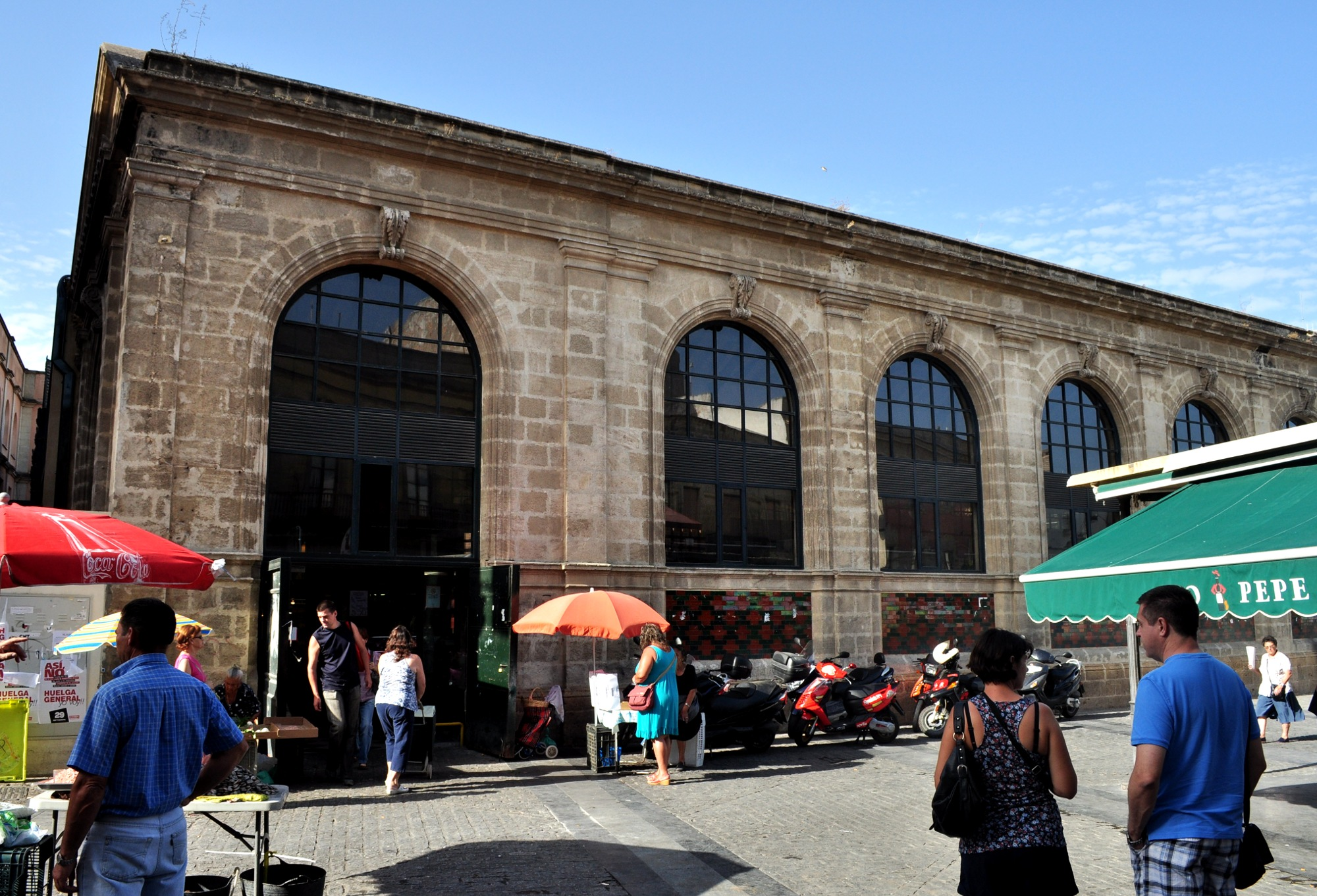 Central Market on Dona Blanca St. Jerez